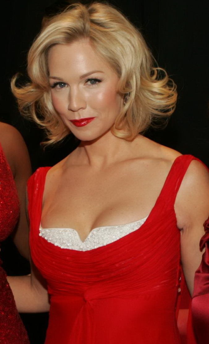 Jennie Garth back stage at the 2009 Heart Truth fashion show